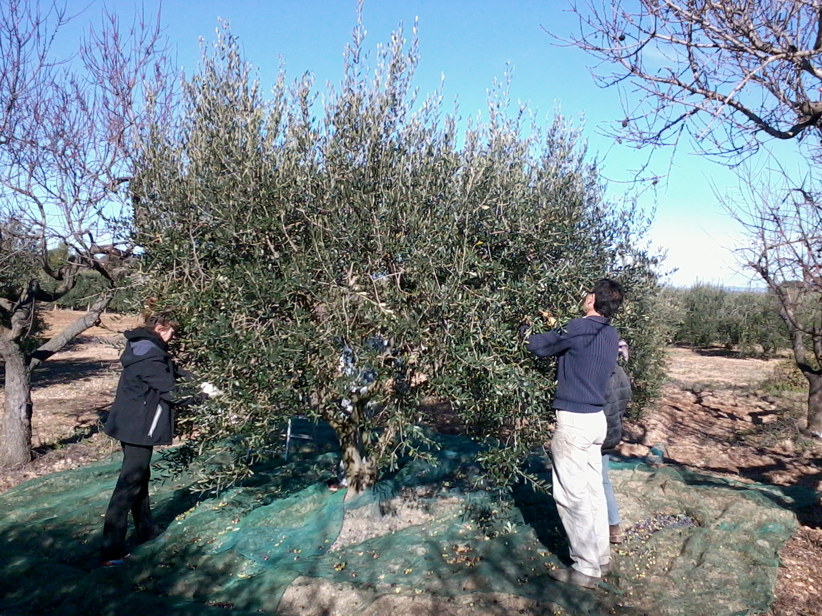 Recollection of olives by hand in Alcover, Alt Camp, Catalonia.